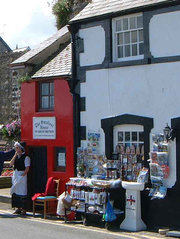 Small House in Great Britain, Conwy, North Wales.